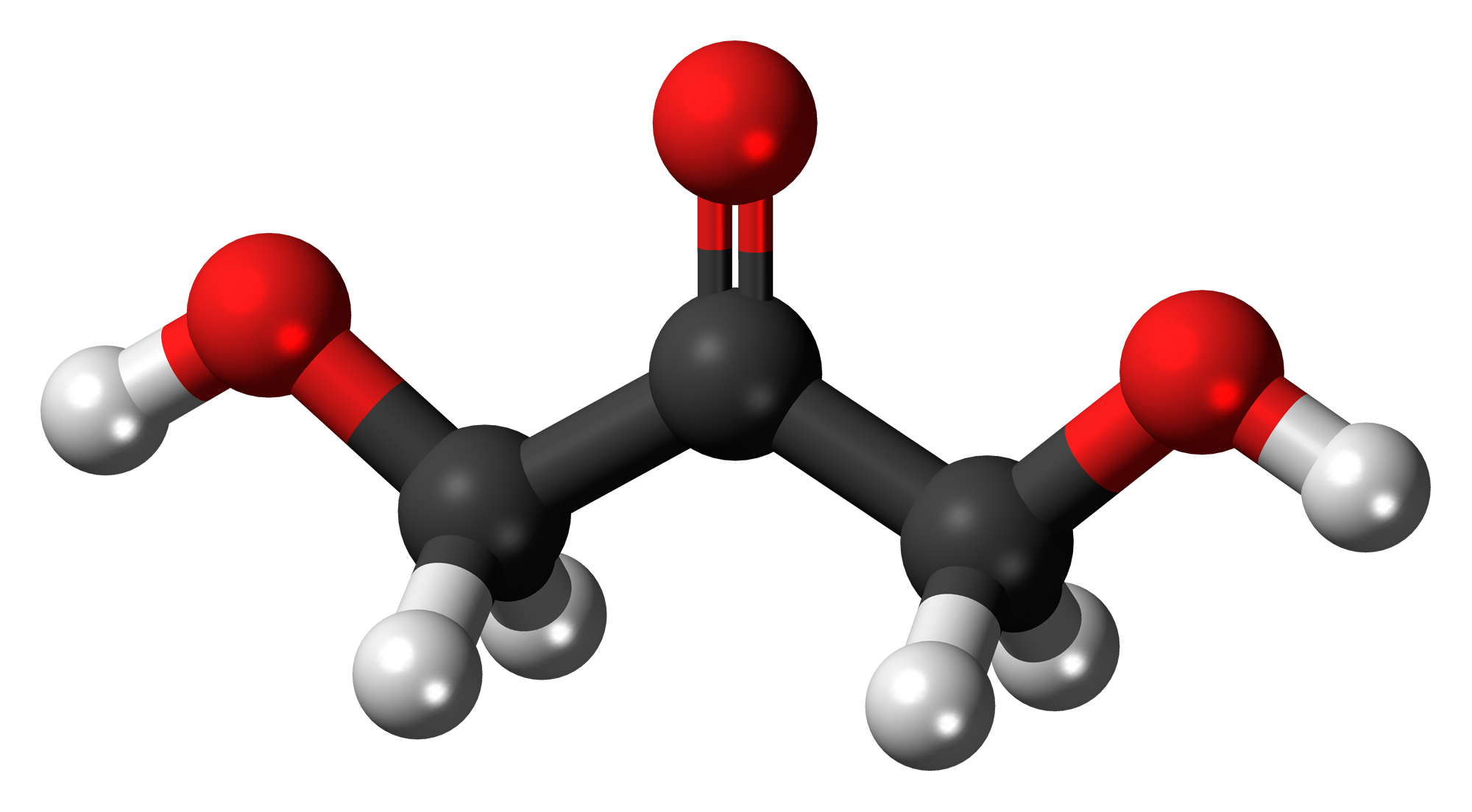 Ball-and-stick model of the dihydroxyacetone molecule, also known as glycerone, a triose sugar. Colour code: Carbon, C: black Hydrogen, H: white Oxygen, O: red